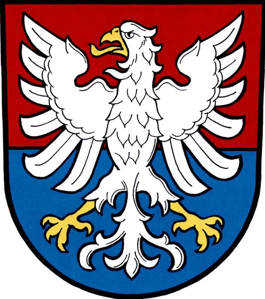 Municipal coat of arms of Kralice na Hané village, Prostějov District, Czech Republic.